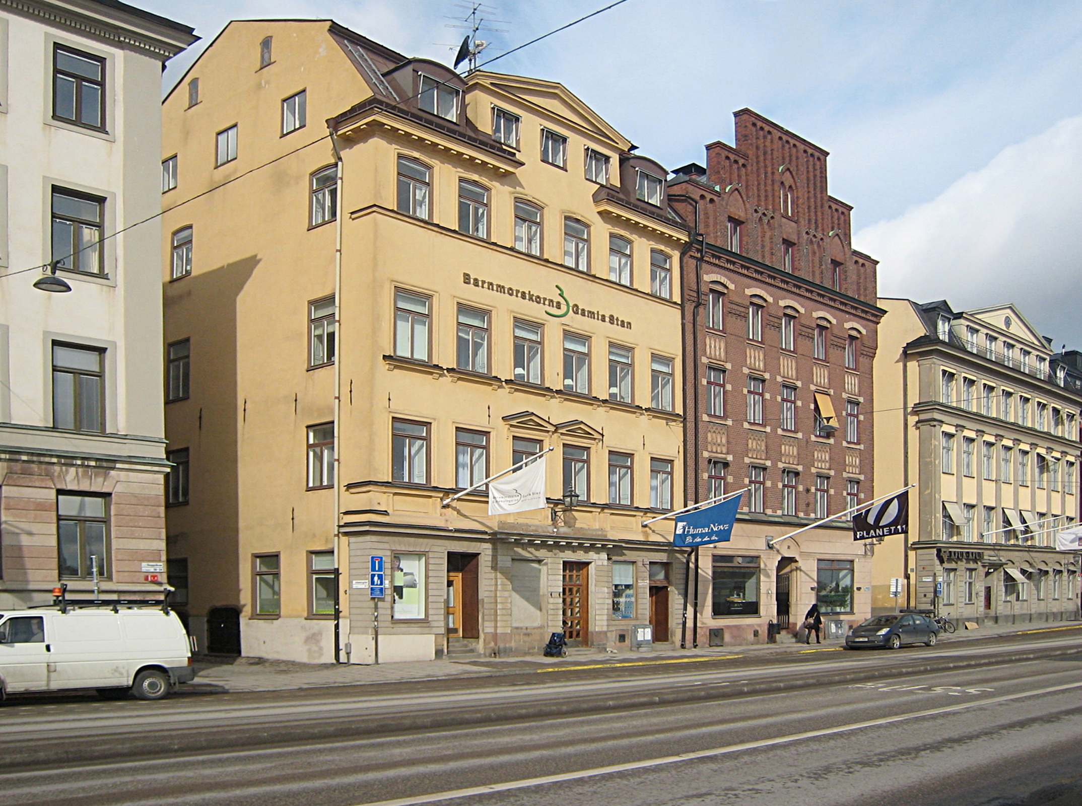 Skeppsbron 30-32, Kvarteret Glaucus.